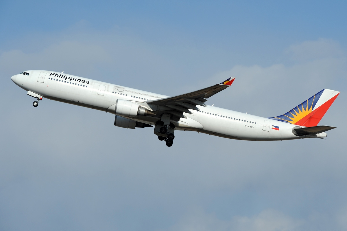 PAL 433 to Manila.